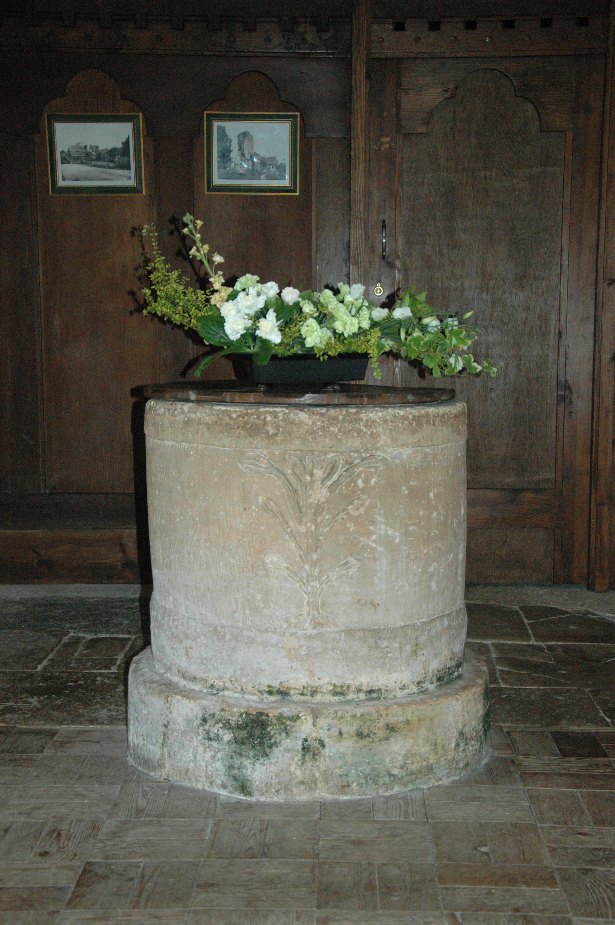 Church of England parish church of St Denys, Northmoor, Oxfordshire: Norman baptismal font